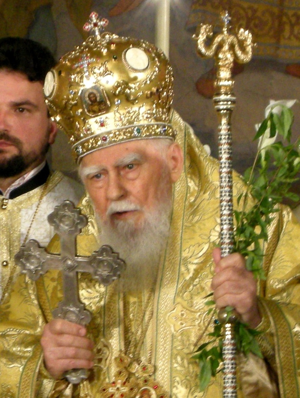 Maxim - His Holiness, the Metropolitan of Sofia and Patriarch of All Bulgaria.